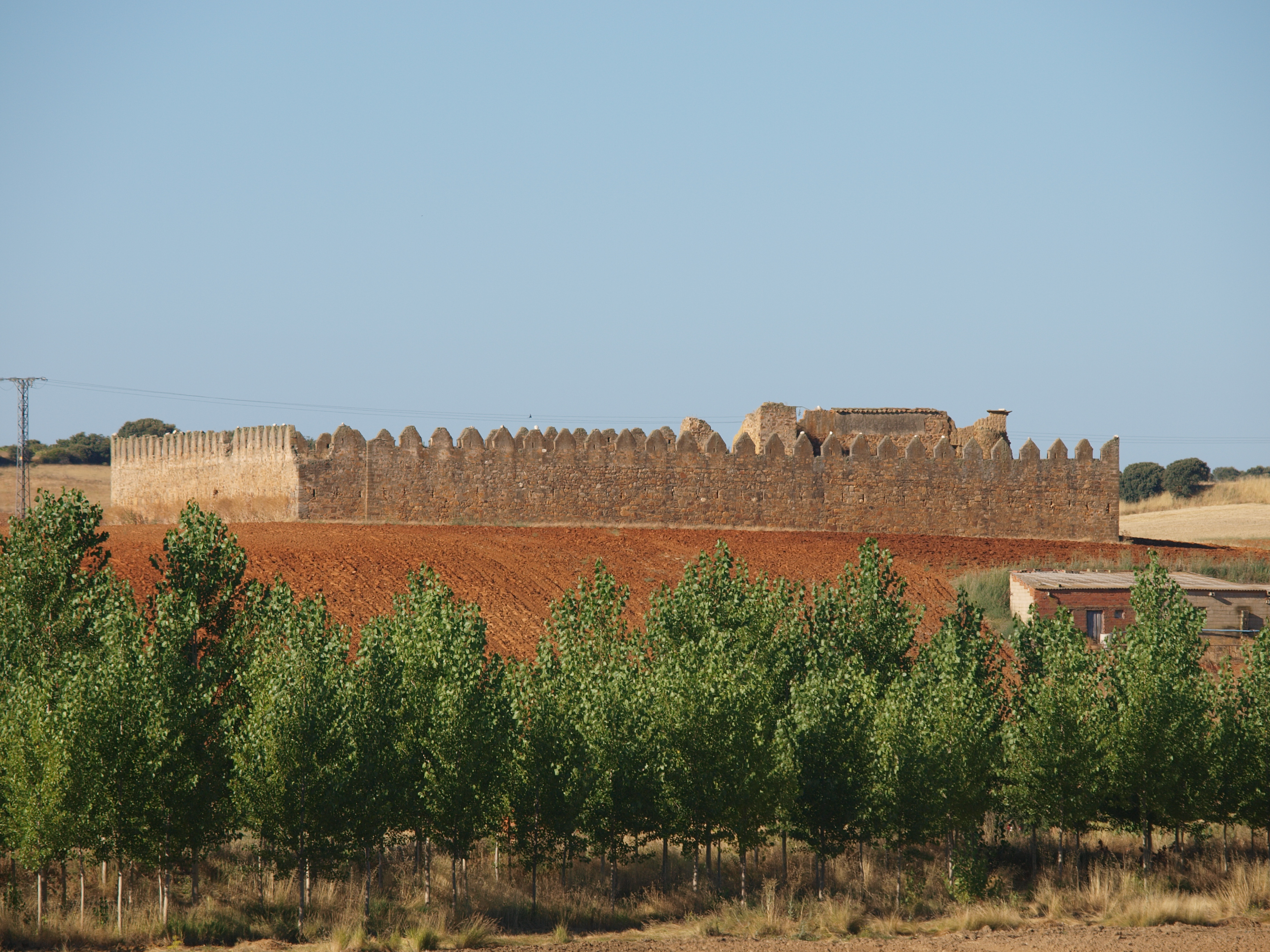 The castle in Granucillo de Vidriales, a spanish village in the province of Zamora